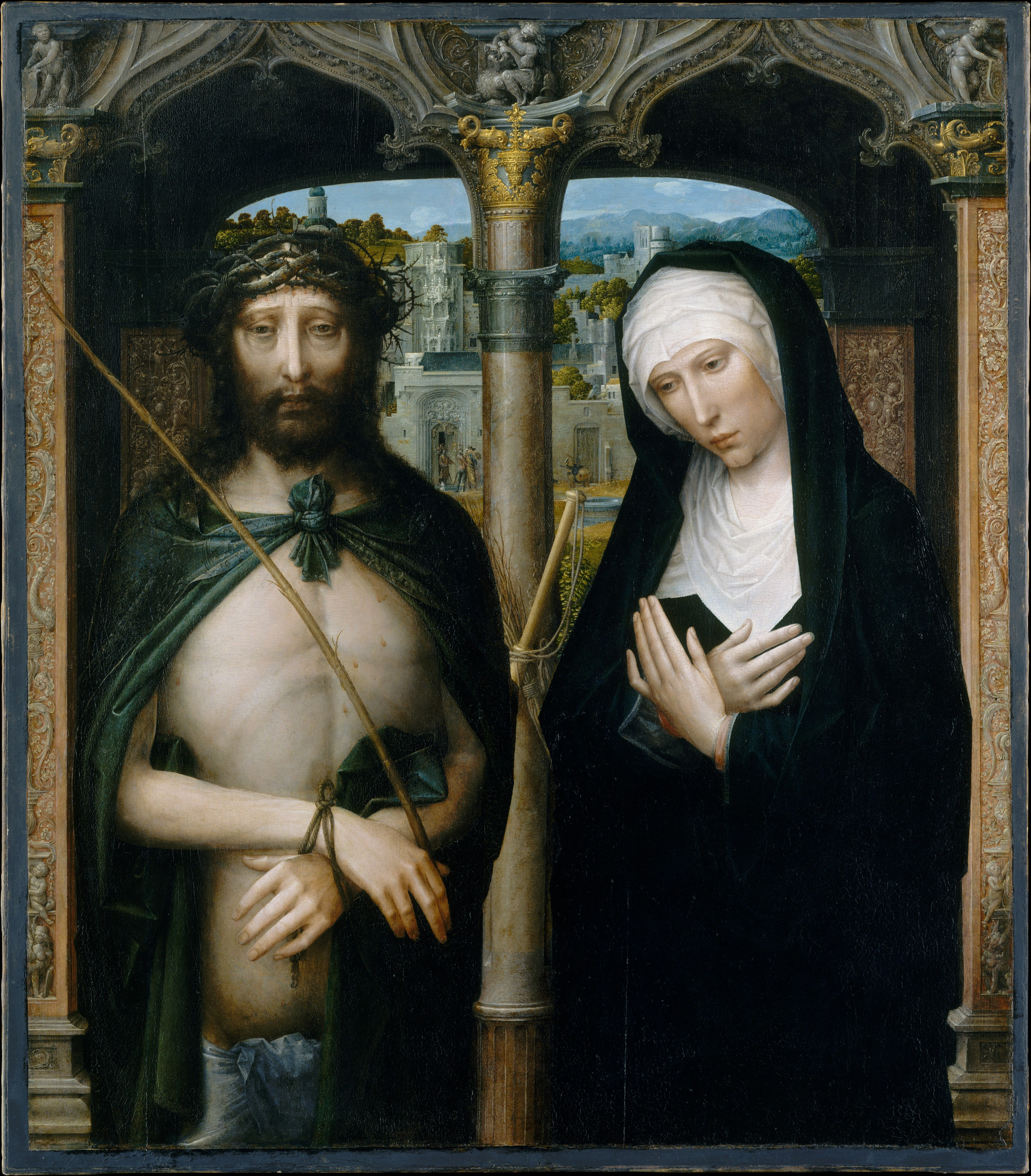 Christ Crowned with Thorns (Ecce Homo), and the Mourning Virgin.